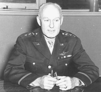 Lt Gen George H. Brett, in Australia the day after his appointment as Deputy Supreme Commander in the South West Pacific Area (SWPA) and Commander of Allied Air Forces in the SWPA.